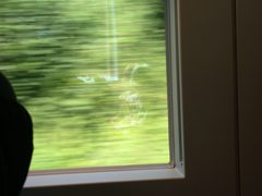 The picture shows a photograph taken by Hlynur Hallson.